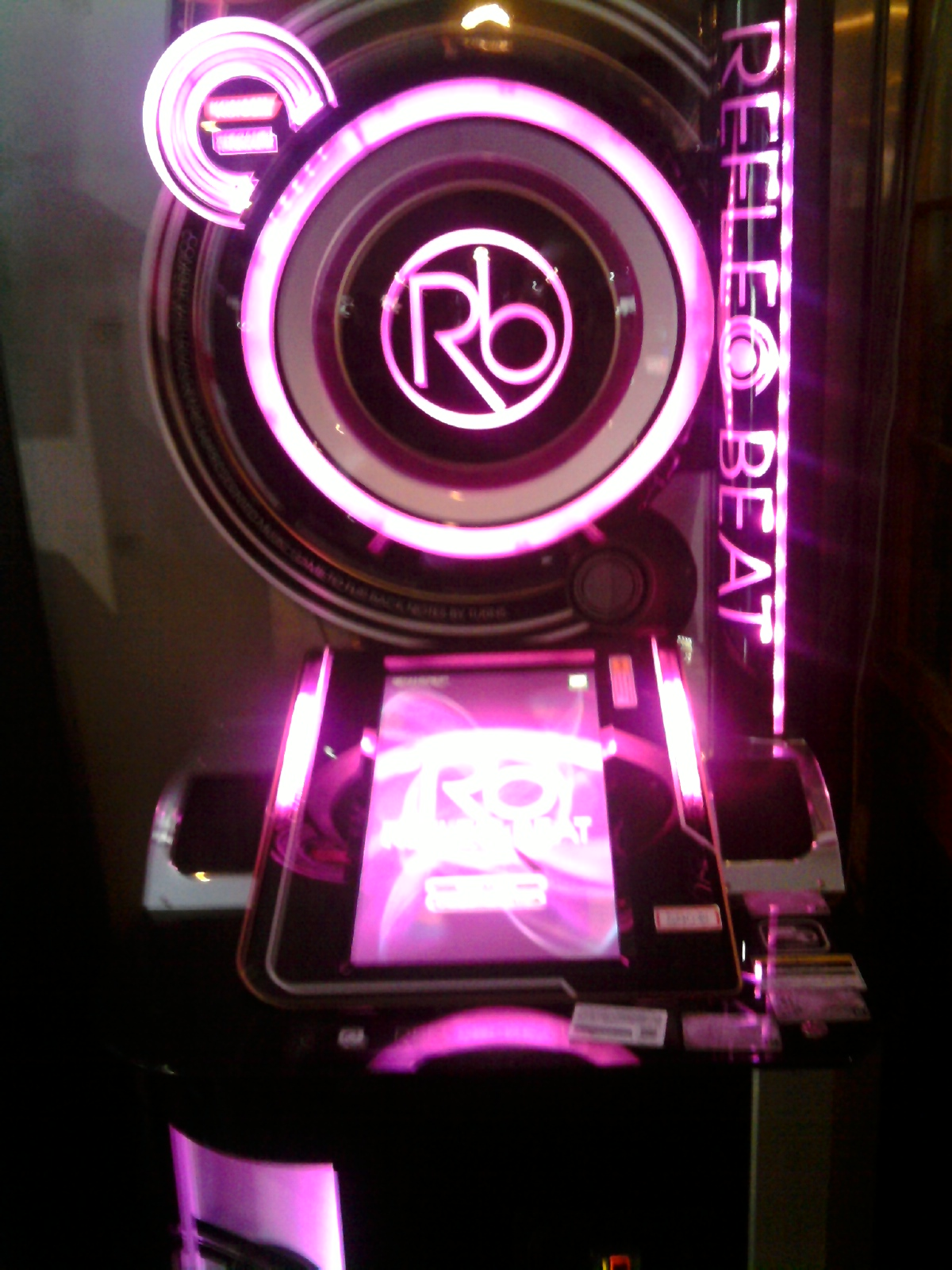 REFLEC BEAT on South Korea